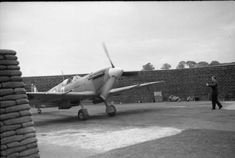 Royal Air Force Fighter Command, 1939-1945. A pilot of No. 313 (Czechoslovak) Squadron RAF, runs up the engine of his Supermarine Spitfire Mark VB in a sandbagged revetment at Hornchurch, Essex.